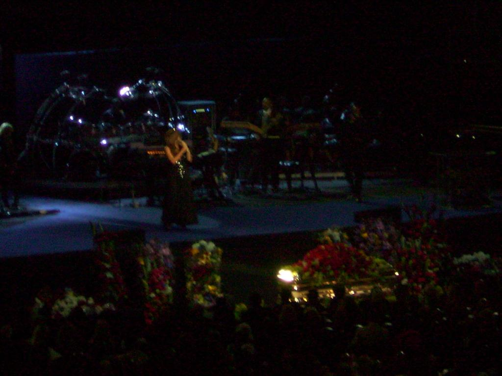 Mariah Carey performing "I'll Be There" on the Michael Jackson Memorial Service, in July 2009